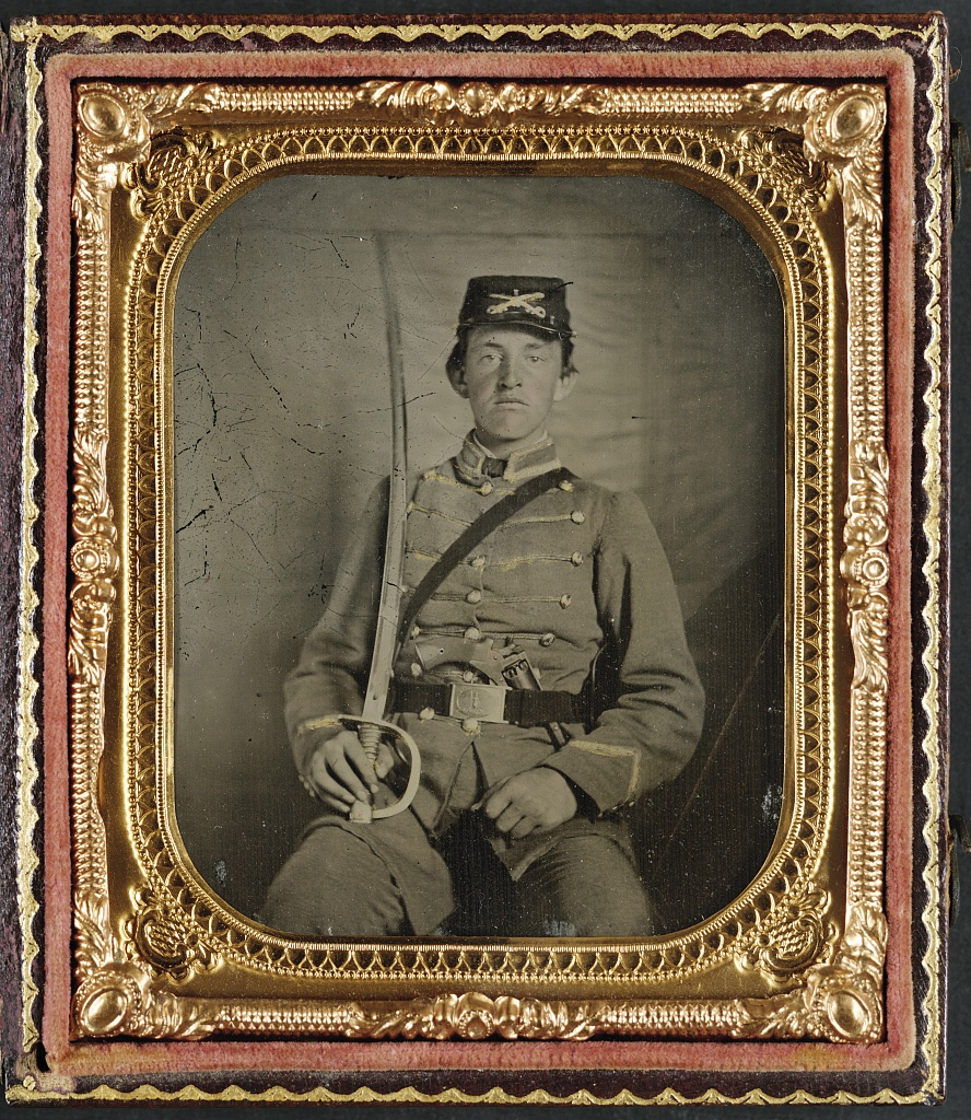 [Private David M. Thatcher of Company B, Berkeley Troop, 1st Virginia Cavalry Regiment, in uniform and Virginia sword belt plate with Adams revolver and cavalry sword] [between 1861 and 1865] 1 photograph : sixth-plate ambrotype, hand-colored ; 9.4 x 8.2 cm (frame) Notes: Title devised by Library staff, with information from Tom Liljenquist; soldier identification from Larry and Karen Thatcher (March 5, 2012). Case: Rinhart, no. 267. Deposit; Tom Liljenquist; 2011; (D 062). Forms part of: Liljenquist Family Collection of Civil War Photographs (Library of Congress). Echoes of glory : Arms and equipment of the Union. Alexandria, Va.: Time-Life Books, 2000, p. 54. Published in: Still more Confederate faces / D. A. Serrano. Bayside, N.Y.: Metropolitan Company, 1992, p. 167. Published in: Even more Confederate faces / by William A. Turner. Gaithersburg, Md.: Olde Soldier Books, Inc.,1993, p. 109. Published in: Confederate belt buckles and plates / Steve E Mullinax. Alexandria, Va. : O'Donnell Publications, 1999[?], p. 213. Subjects: Thatcher, David M.,--1844-1863. Confederate States of America.--Army.--Virginia Cavalry Regiment, 1st--People--1860-1870. Soldiers--Confederate--1860-1870. Military uniforms--Confederate--1860-1870. Handguns--1860-1870. Daggers & swords--1860-1870. United States--History--Civil War, 1861-1865--Military personnel--Confederate. Format: Portrait photographs--1860-1870. Ambrotypes--Hand-colored--1860-1870. Repository: Library of Congress, Prints and Photographs Division, Washington, D.C. 20540 USA, Part Of: Ambrotype/Tintype filing series (Library of Congress) (DLC) 2010650518 Liljenquist Family collection (Library of Congress) (DLC) 2010650519 More information about this collection is available at Higher resolution image is available (Persistent URL): Call Number: AMB/TIN no. 2803